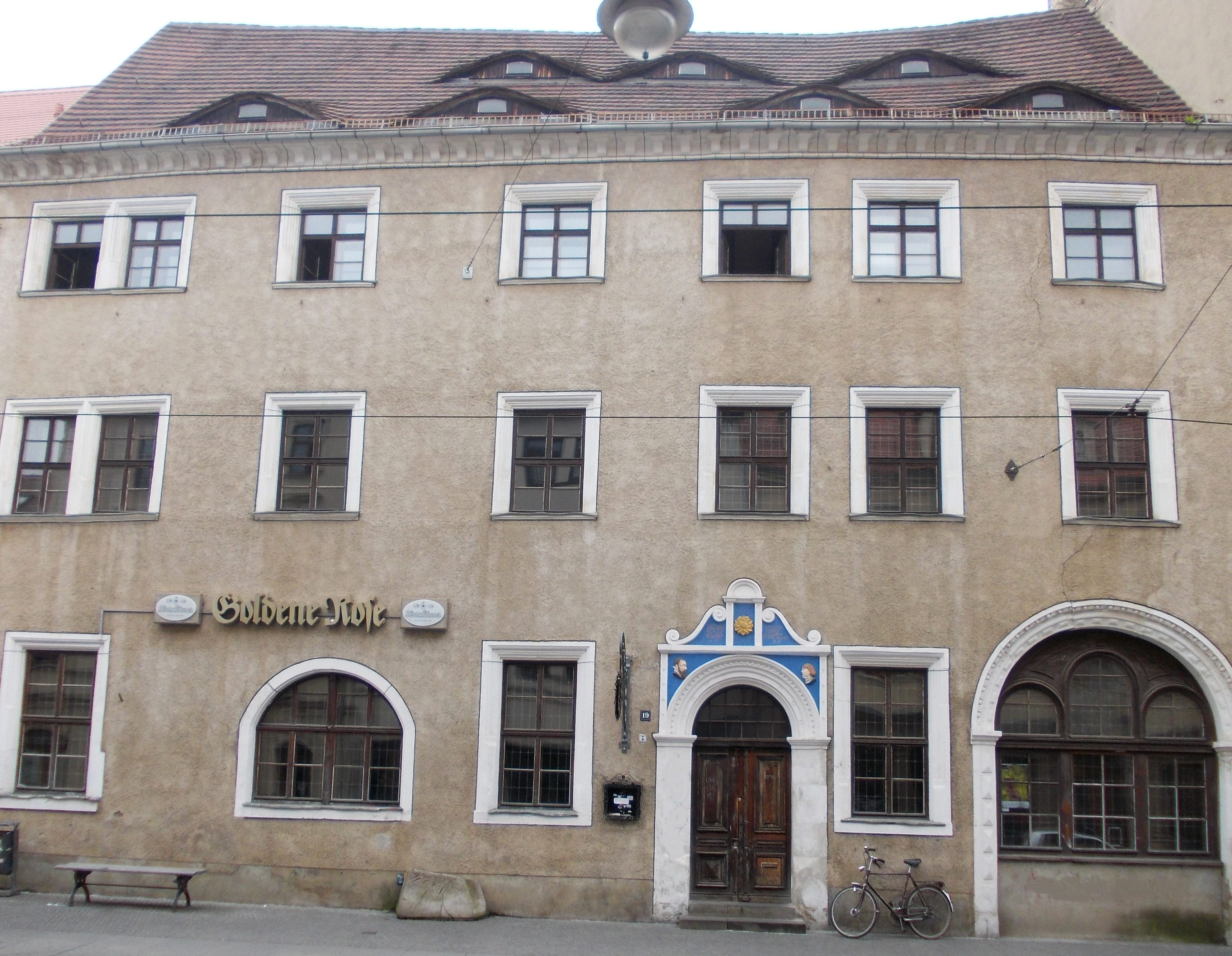 Golden Rose Inn in Halle/Saale (Saxony-Anhalt)